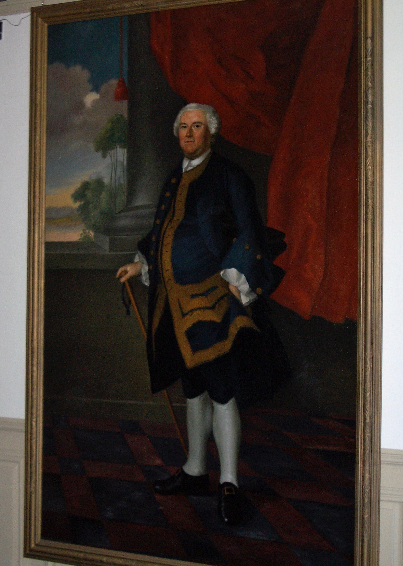 Wentworth-Coolidge Mansion, copy of Benning Wentworth portrait by Joseph Blackburn (1760), as installed in great parlor. Original in New Hampshire Historical Society